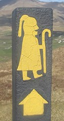 This is the trail marker that Pilgrim Paths Ireland use to mark their walking trails in Ireland